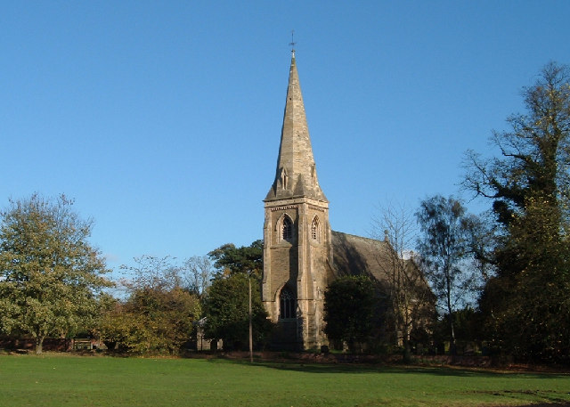 St Paul's parish church, Heslington, North Yorkshire, seen from west-southwest